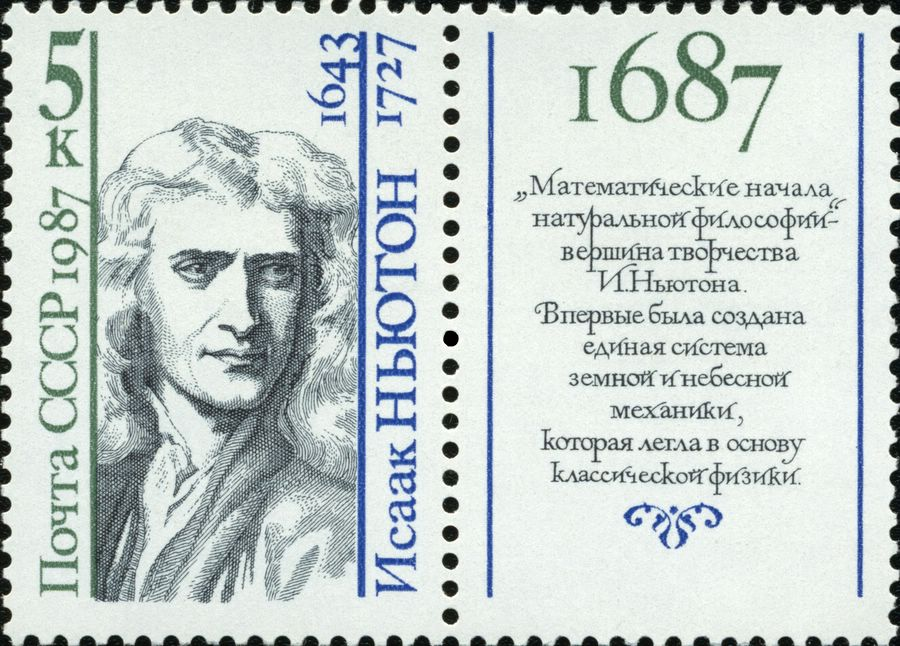 A USSR stamp, Scientists. Date of issue: 8th October 1987. Designer: A. Starilov Michel catalogue number: 5758Zf. 5 K. black, dull-green and blue. Portrait of Isaac Newton (mathematician and physicist)